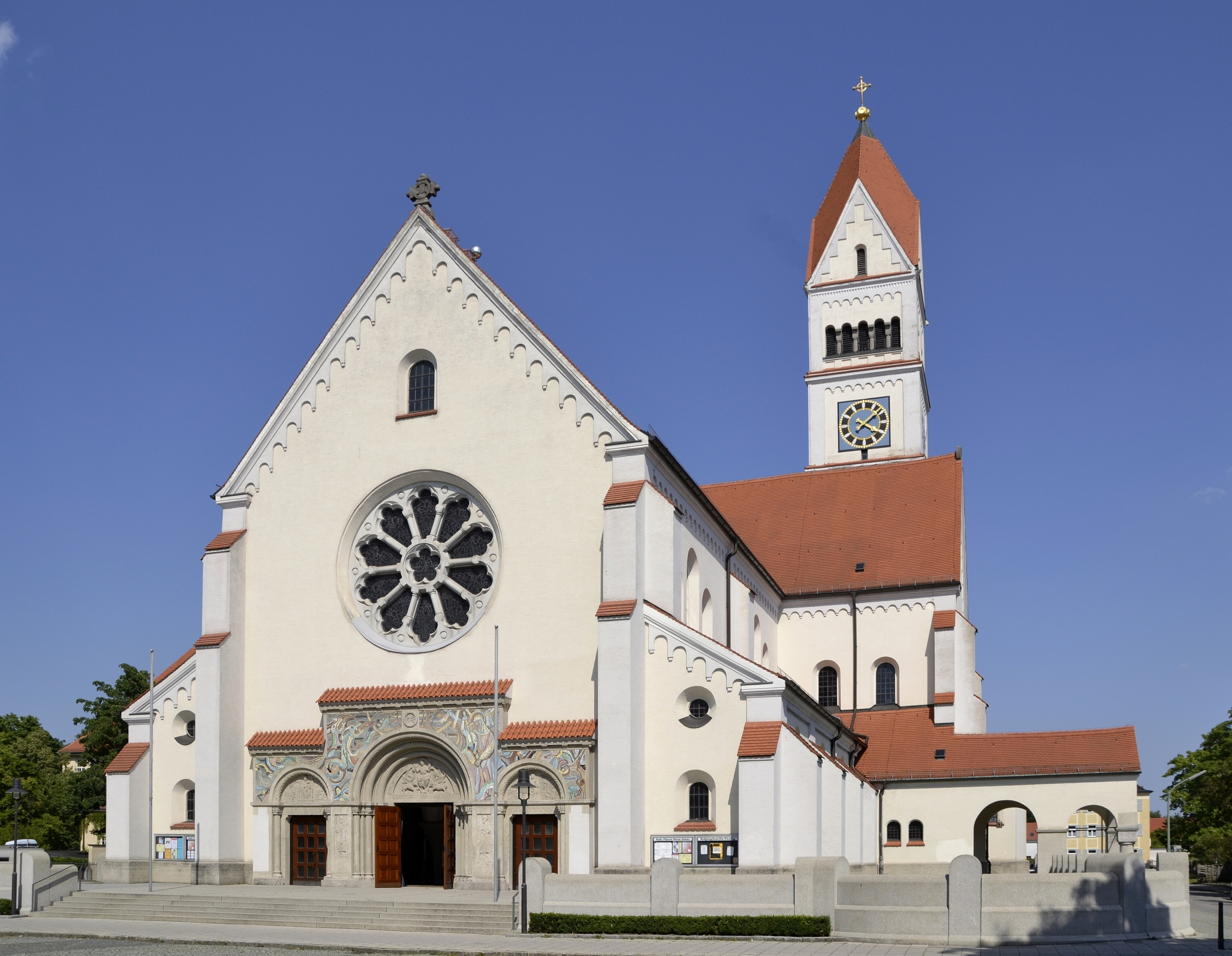 The roman-catholic church Maria Schutz in Munich.